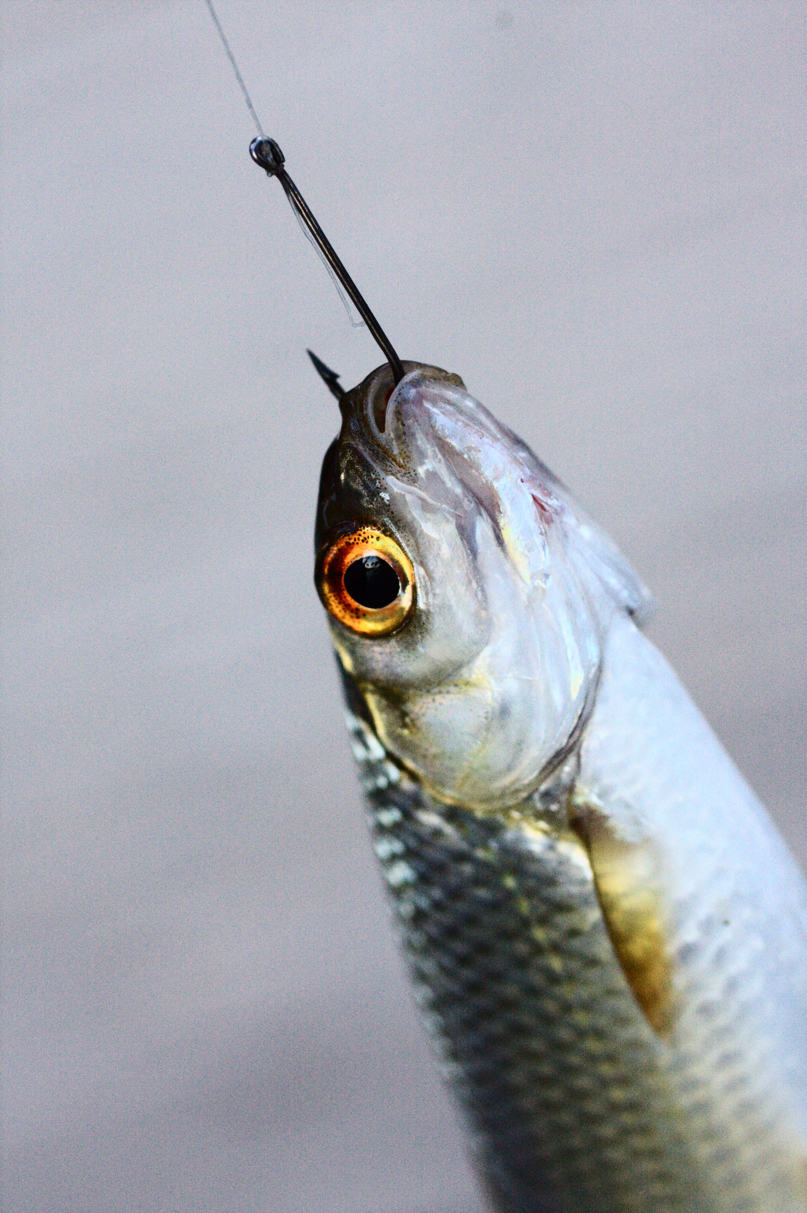 Rutilus rutilus, typical colourful small adult, B.Sunukul, South Ural, Russia